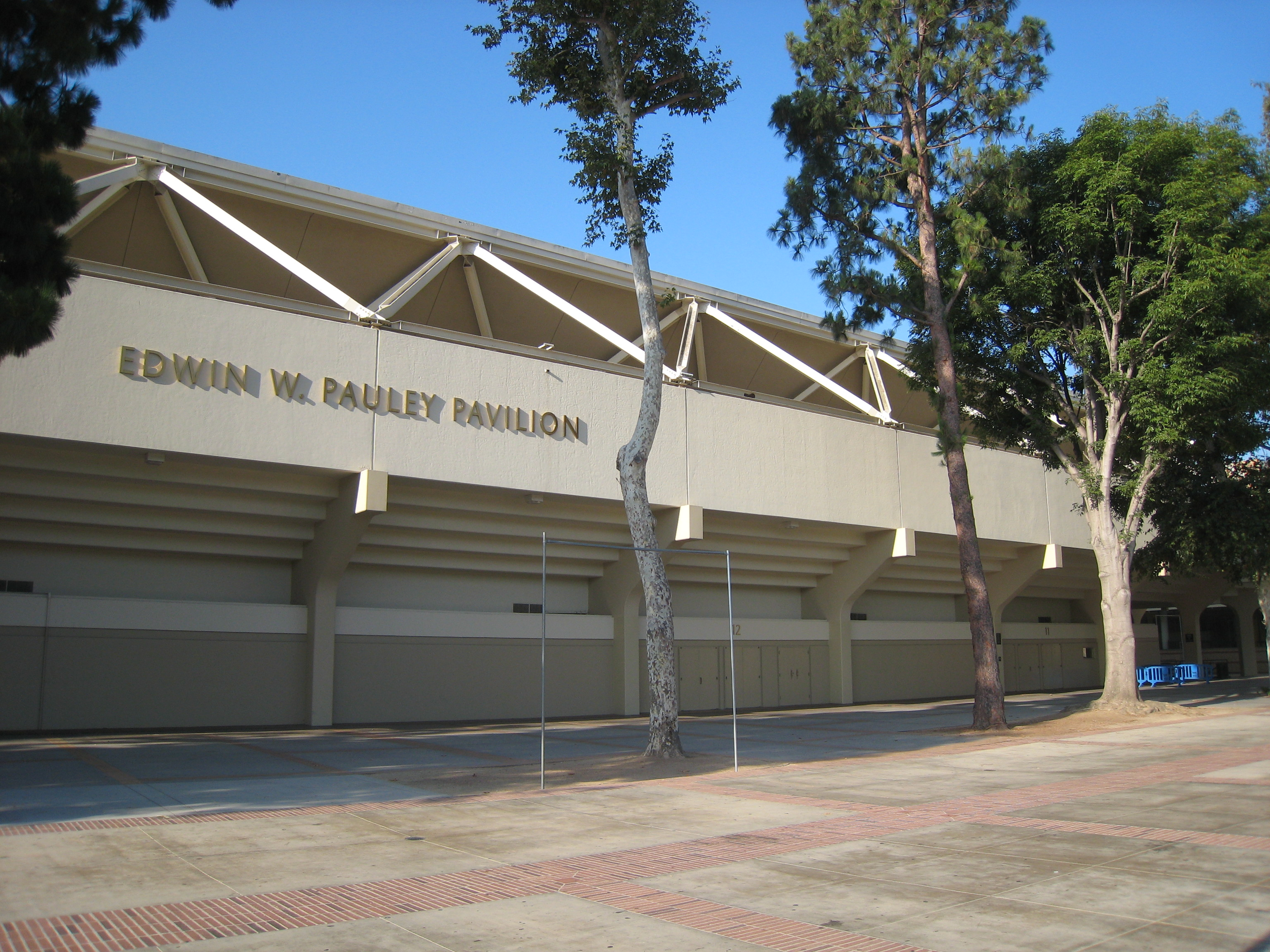 Exterior Pauley Pavilion at UCLA in Los Angeles, California